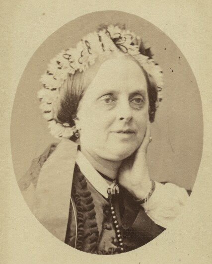 Mary Horner Lyell (1808-1873) British geologist. Daughter of geologist Professor Leonard Horner, wife of Sir Charles Lyell.